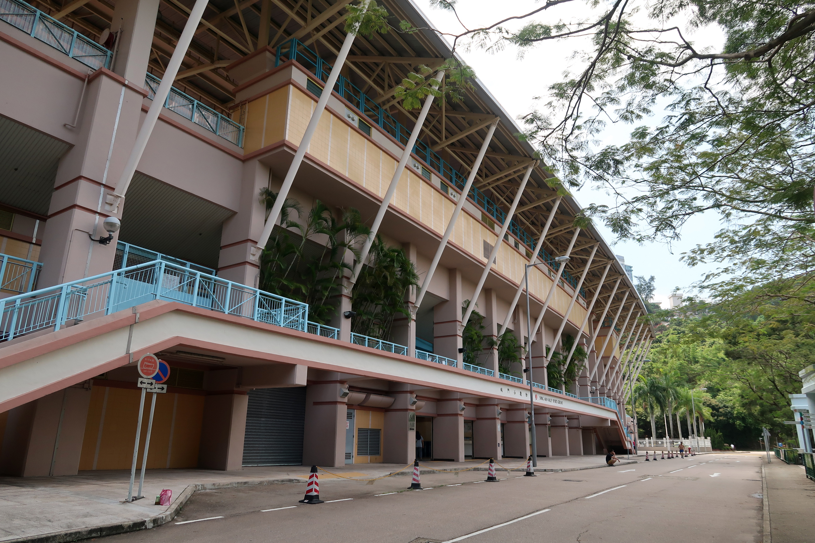 Shing Mun Valley Sports Ground